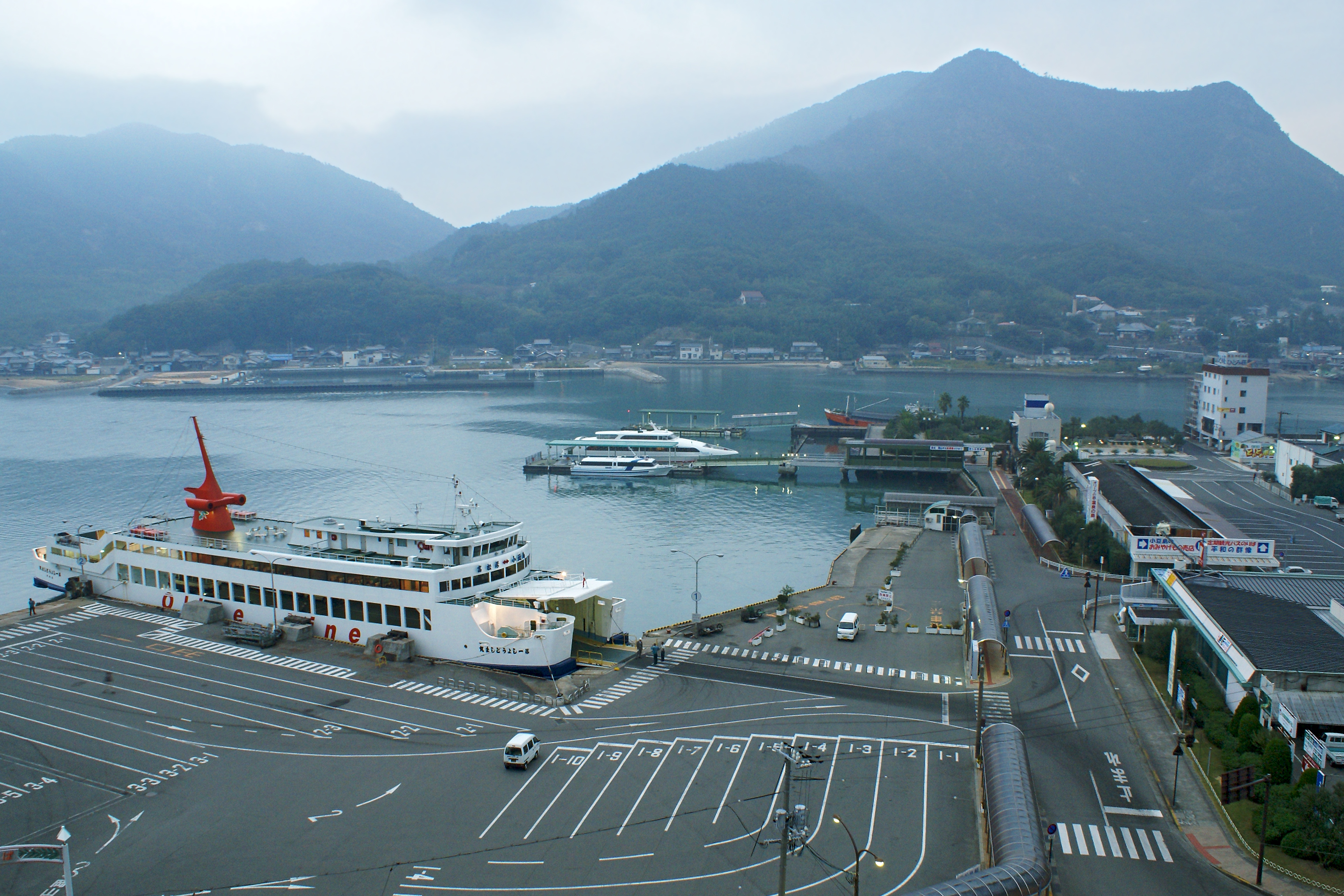 Tonosho port in Shodoshima island Kagawa Prefecture, Japan)